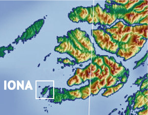 Isle of Mull, Scotland (topographic), with Iona label